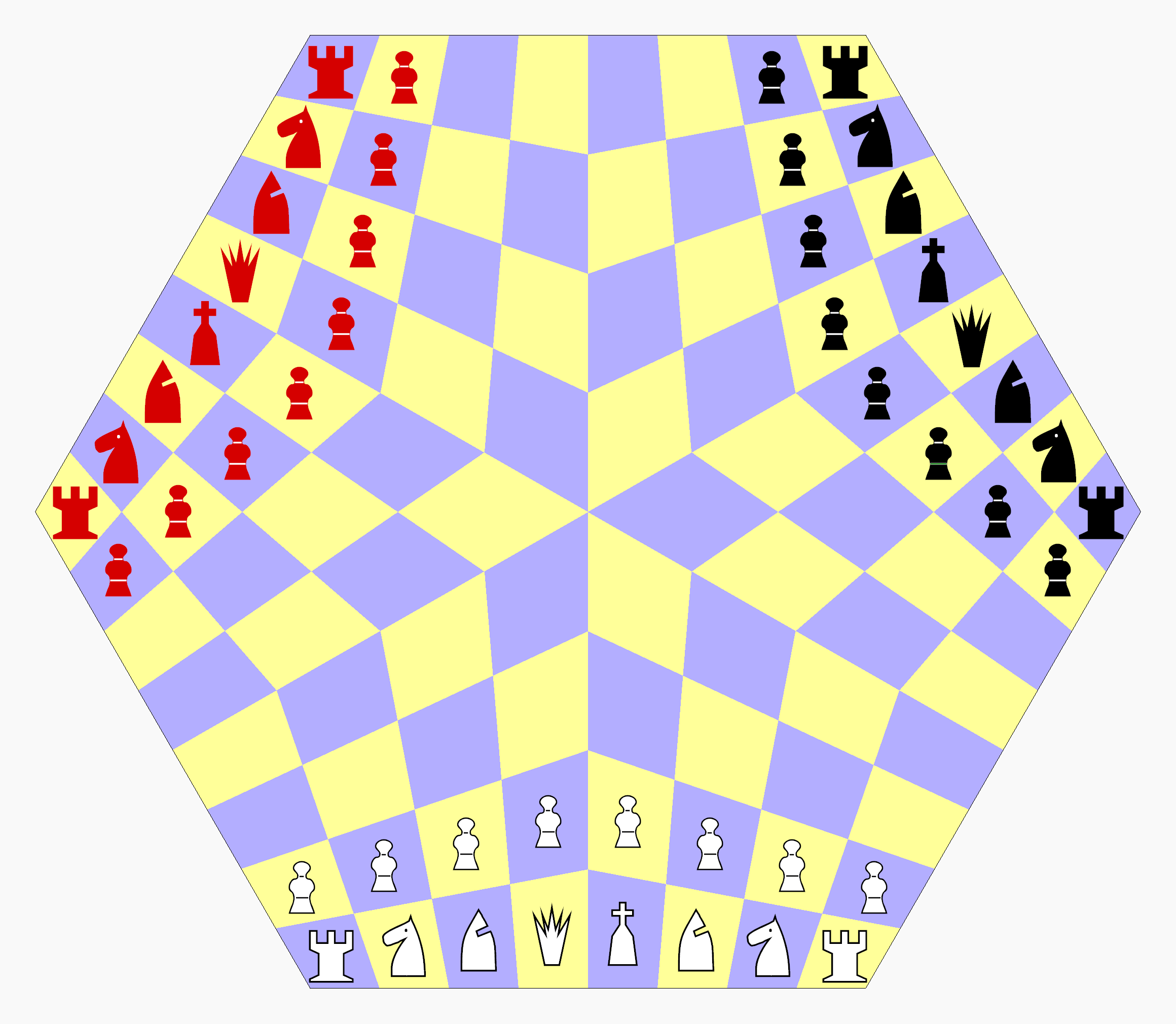 Icons from Chess Utrecht font (Hans Bodlaender); done in MS PAINT